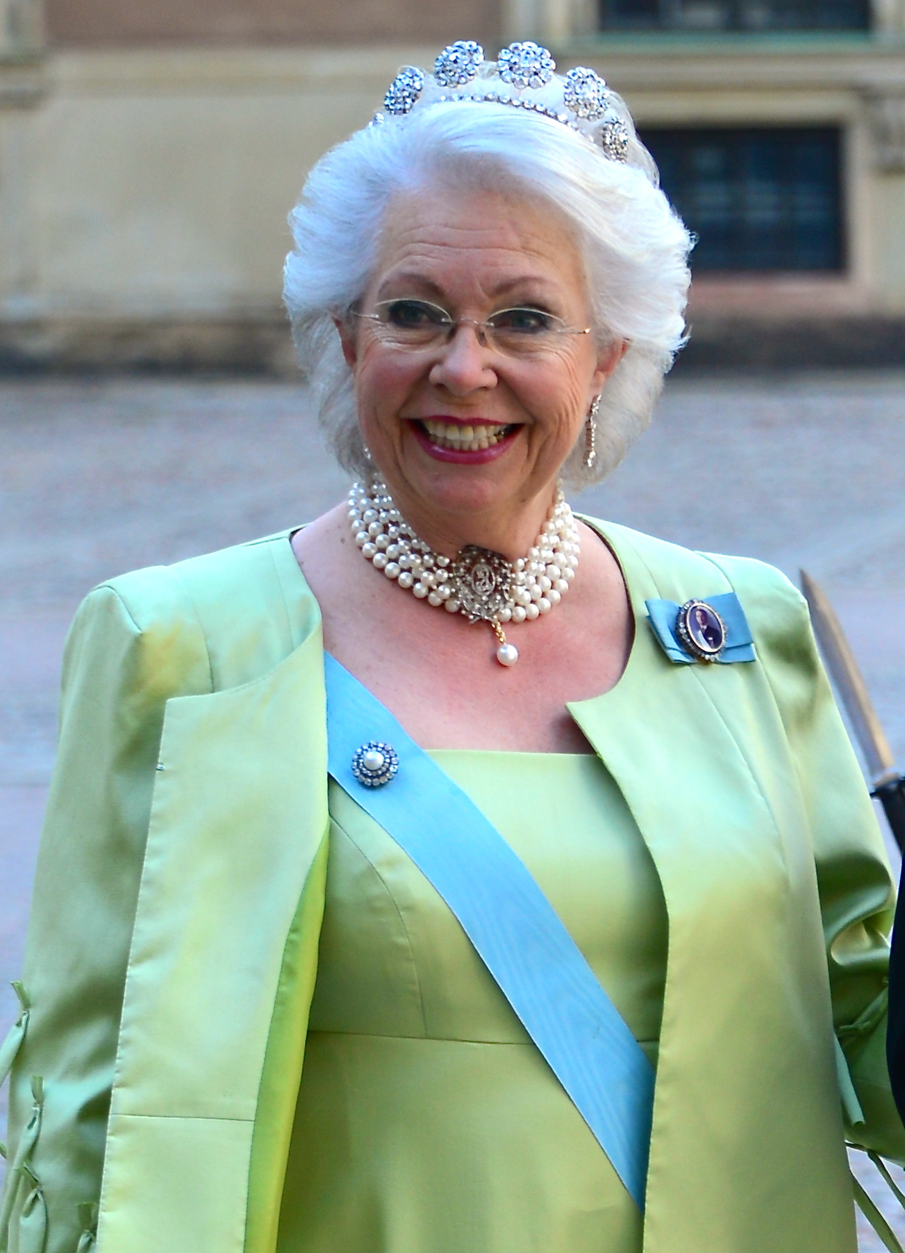 Princess Christina, Mrs. Magnuson on the way to the castle church at the Royal Palace in Stockholm before the wedding between Princess Madeleine and Christopher O'Neill 8 June 2013.